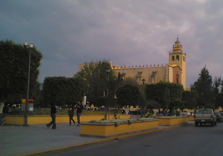 View of the Ixmiquilpan, Hidalgo central square and cathedral, taken on a Nokia 7610 cameraphone on 26 March 2007, around 18:23 local time.